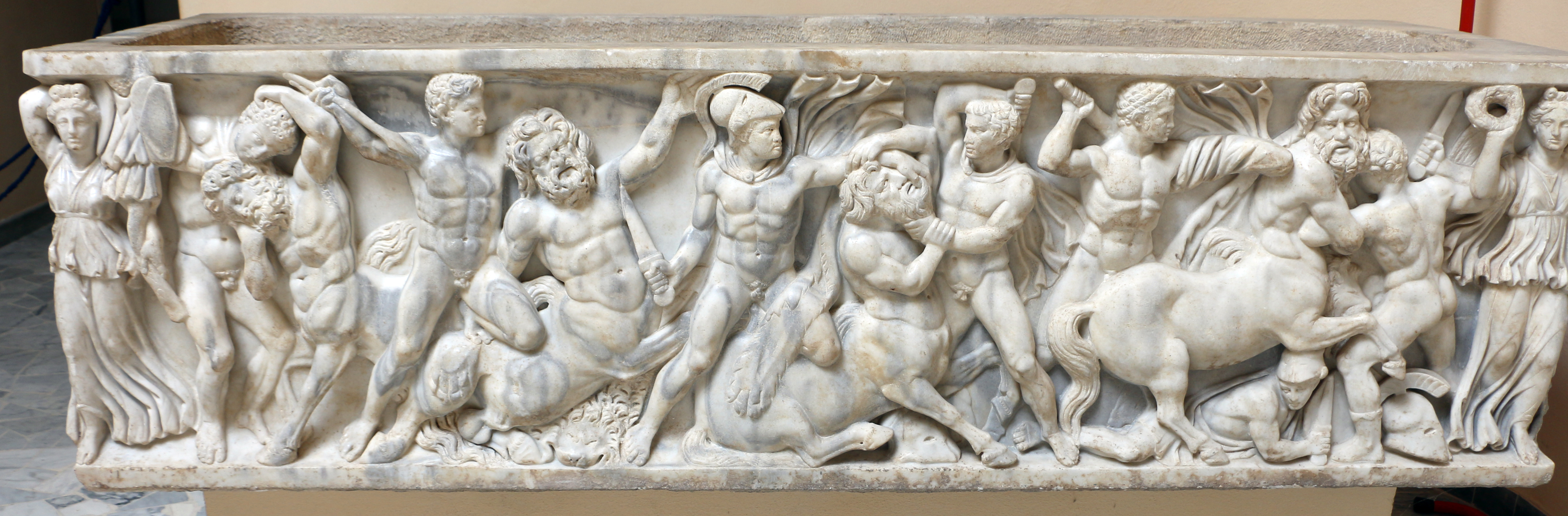 Ancient Roman sarcophagi in the Museo Ostiense (Ostia Antica)